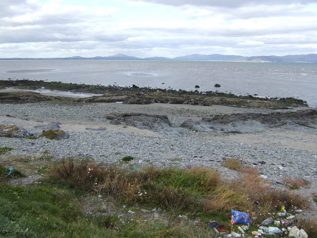 Dundalk Bay. Viewed from the southern shore with the Carlingford Hills in the distance.